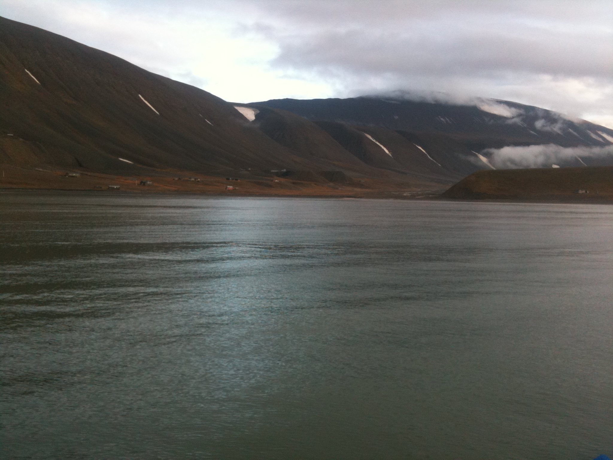 The valley Björndalen seen from the north in Isfjorden, Svalbard